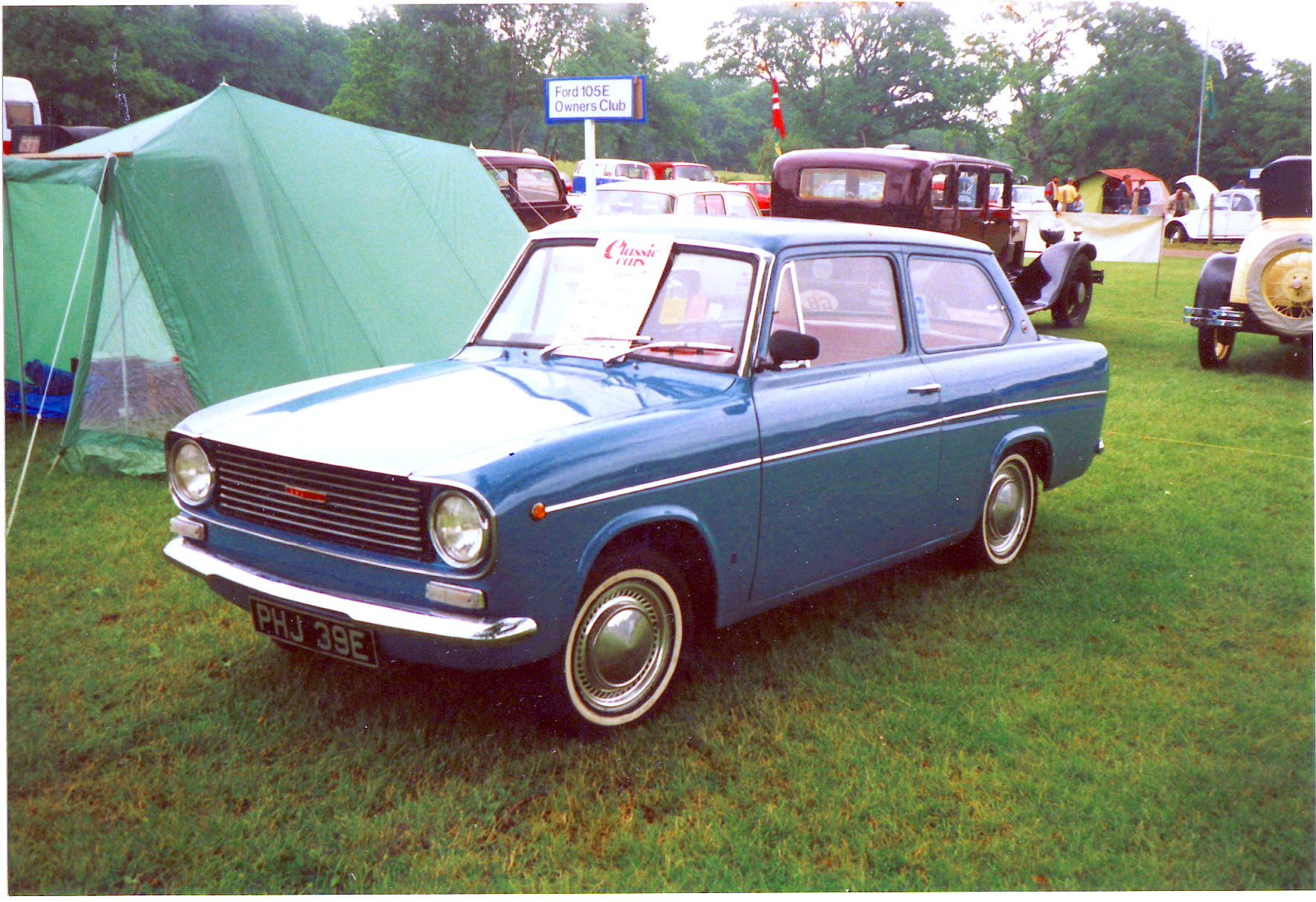 Ford Anglia Torino. Design by Michelotti, produced by OSI. Retouched Version of File:Ford Anglia 105E Torino (17266998965).jpg